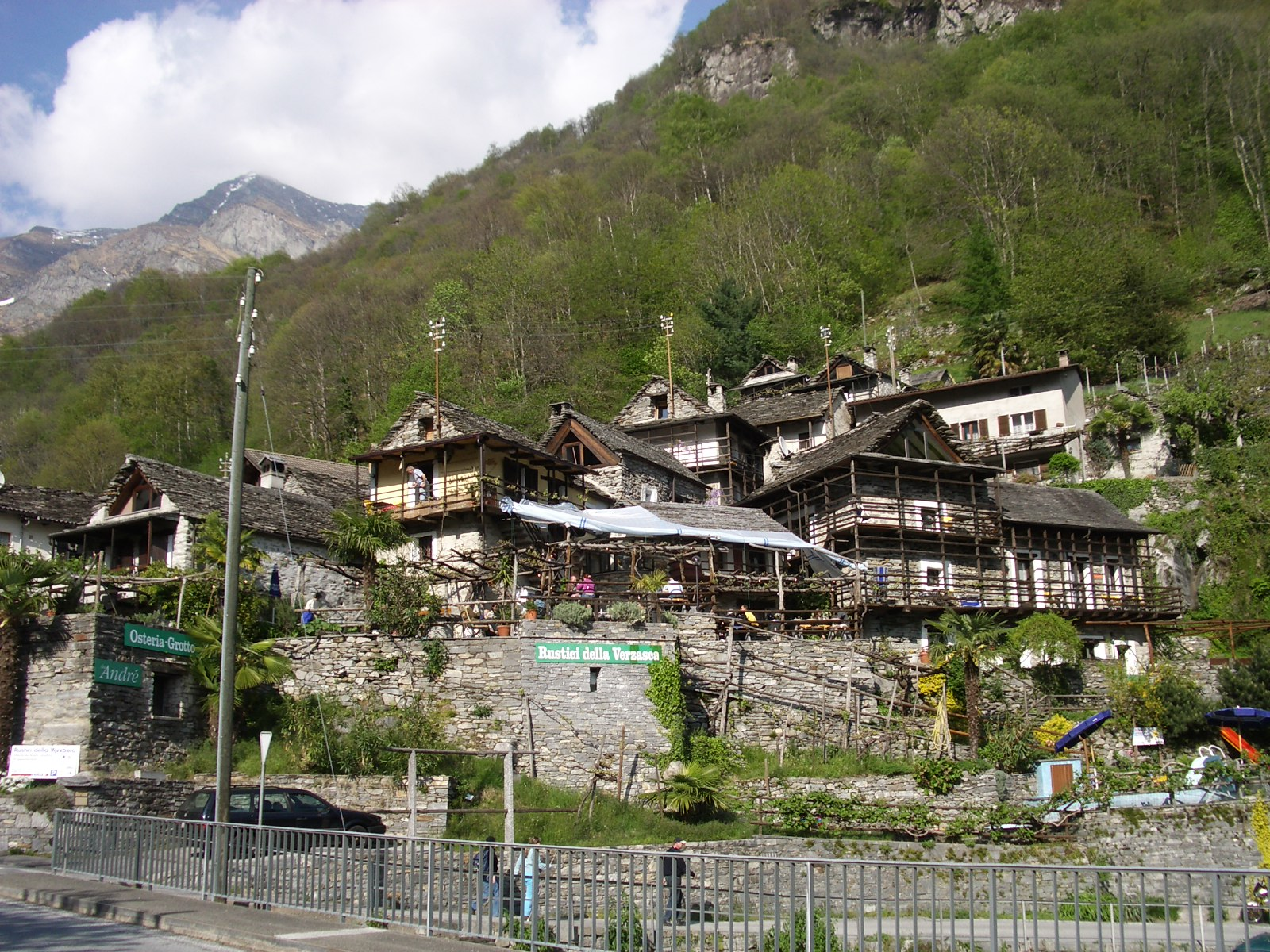 Berzona/Vogorno, Ticino, Switzerland self-made, May 2006